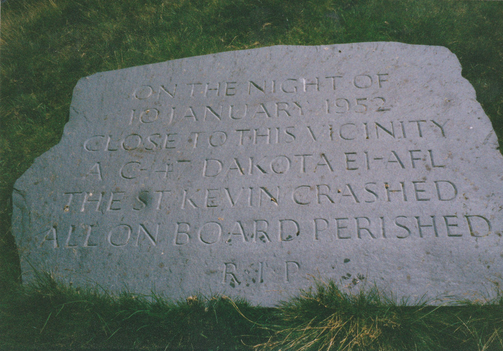 Memorial to the passengers and crew of Aer Lingus crash of 10 January 1952, 4 km from Plas Gwynant, Gwynedd, Great Britain. The Douglas DC-3 (named 'Saint Kevin') owned by Aer Lingus left RAF Northolt, London at 17:25 on 10th January, 1952 on a flight to Dublin. Radio contact with the plane was lost shortly after the pilot requested permission from Dublin control at around 19:15 to descend from 6500 ft to 4500 ft. A board of inquiry came to the conclusion that the descending plane encountered a "powerful down-current of air on the lee side of Snowdon which forced the aircraft down into an area of very great turbulence .." which led the pilot, Capt Keohane, to "lose control.." Even in mid summer, the Cwm Edno bog at 1.500ft, is an inhospitable place. The conditions on that night in January, 1952 were absolutely atrocious. I remember at the time Police Constable Jones, stationed at Deiniolen, describing the scene of utter devastation which met officers who had had to climb for almost an hour to the site from the Llyn Gwynant road, how sections of the wreckage and many bodies had been sucked into the muddy bog and how a little child's doll had on impact been thrown clear of the burning wreckage, something which upset the men greatly.